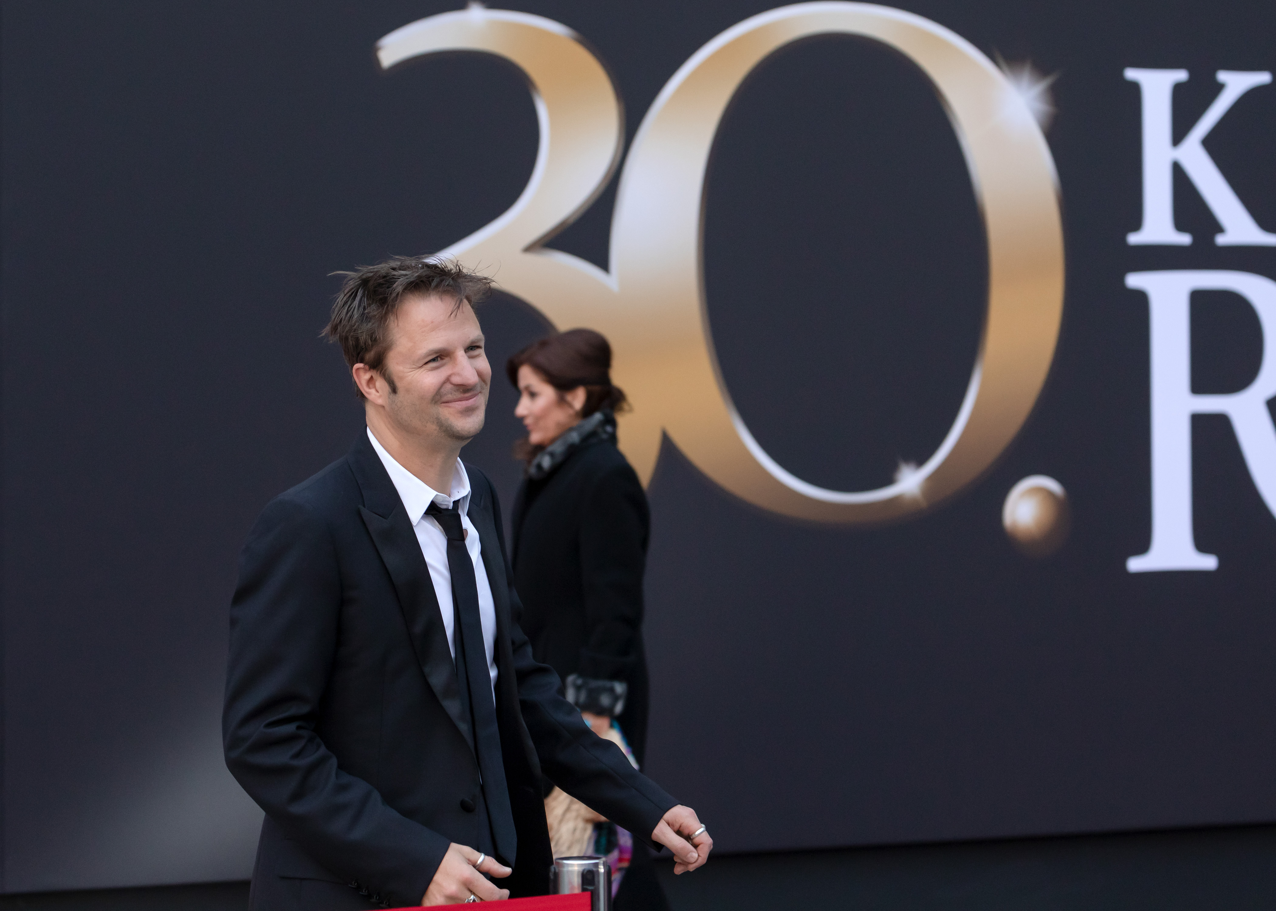 Philipp Hochmair on the red carpet of the Romy TV awards 2019 at Hofburg Palace in Vienna, Austria.